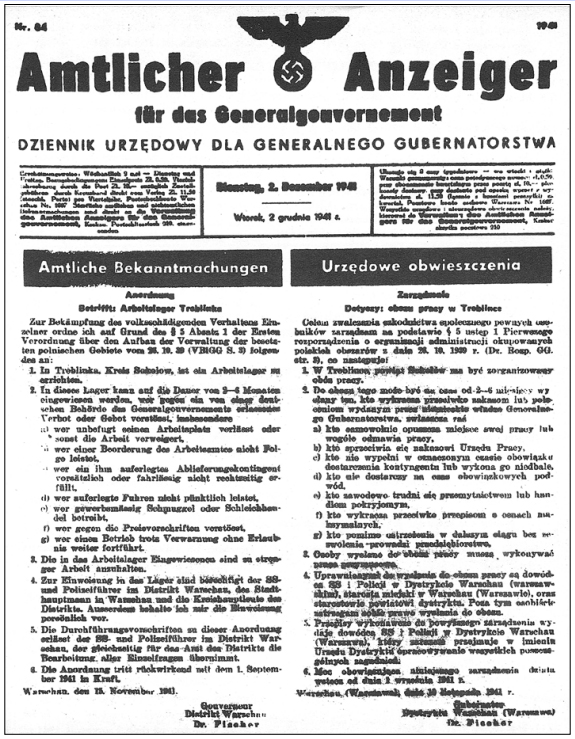 Official announcement about the founding of Treblinka I Arbeitslager in General Government as the penal colony for social misfits (schidigende) written in German and Polish and signed by Governor Dr. Ludwig Fischer.